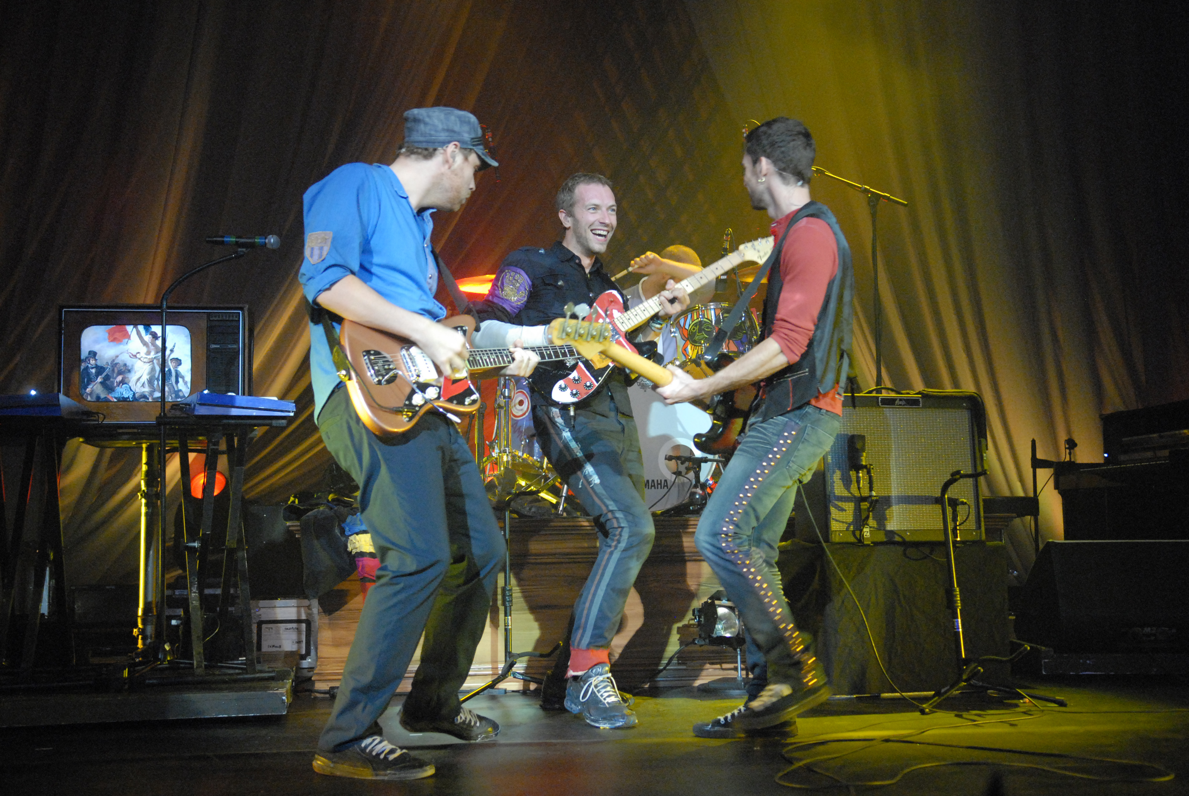 Coldplay performs for Nissan Live Sets on Yahoo! Music